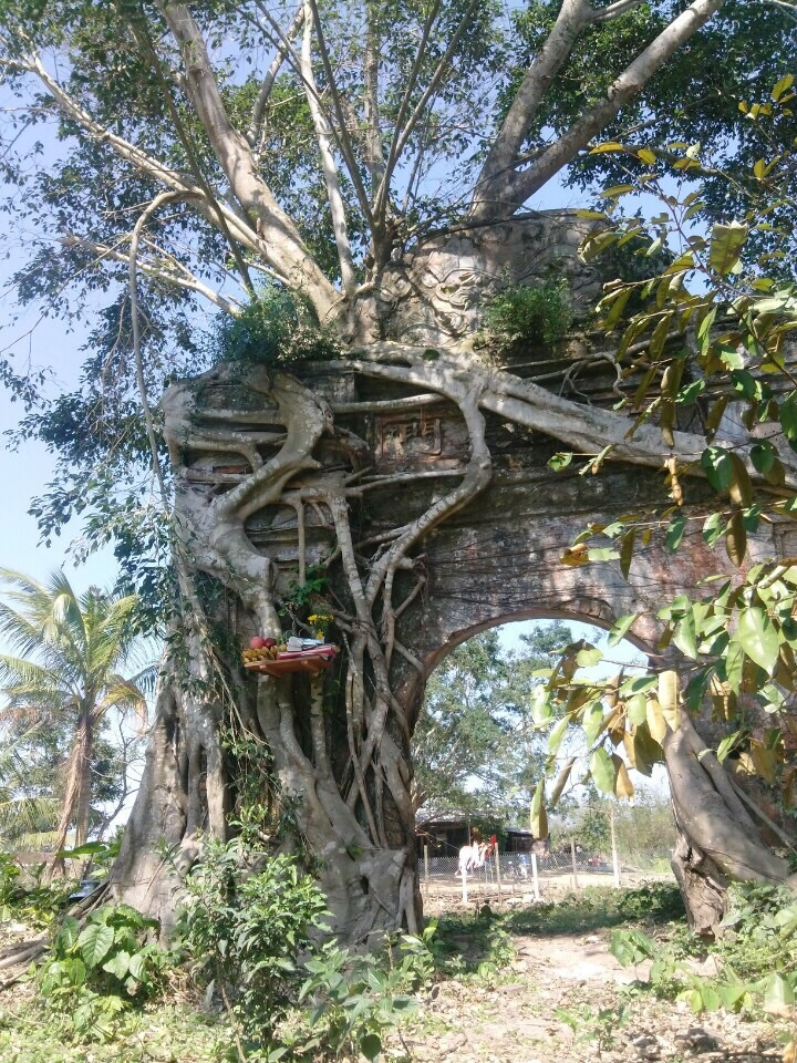 Hoang Phuc Pagoda in Le Thuy District, Quang Binh Province. VietnamTiếng Việt: Chùa Hoằng Phúc ở Lệ Thuỷ, Quảng Bình